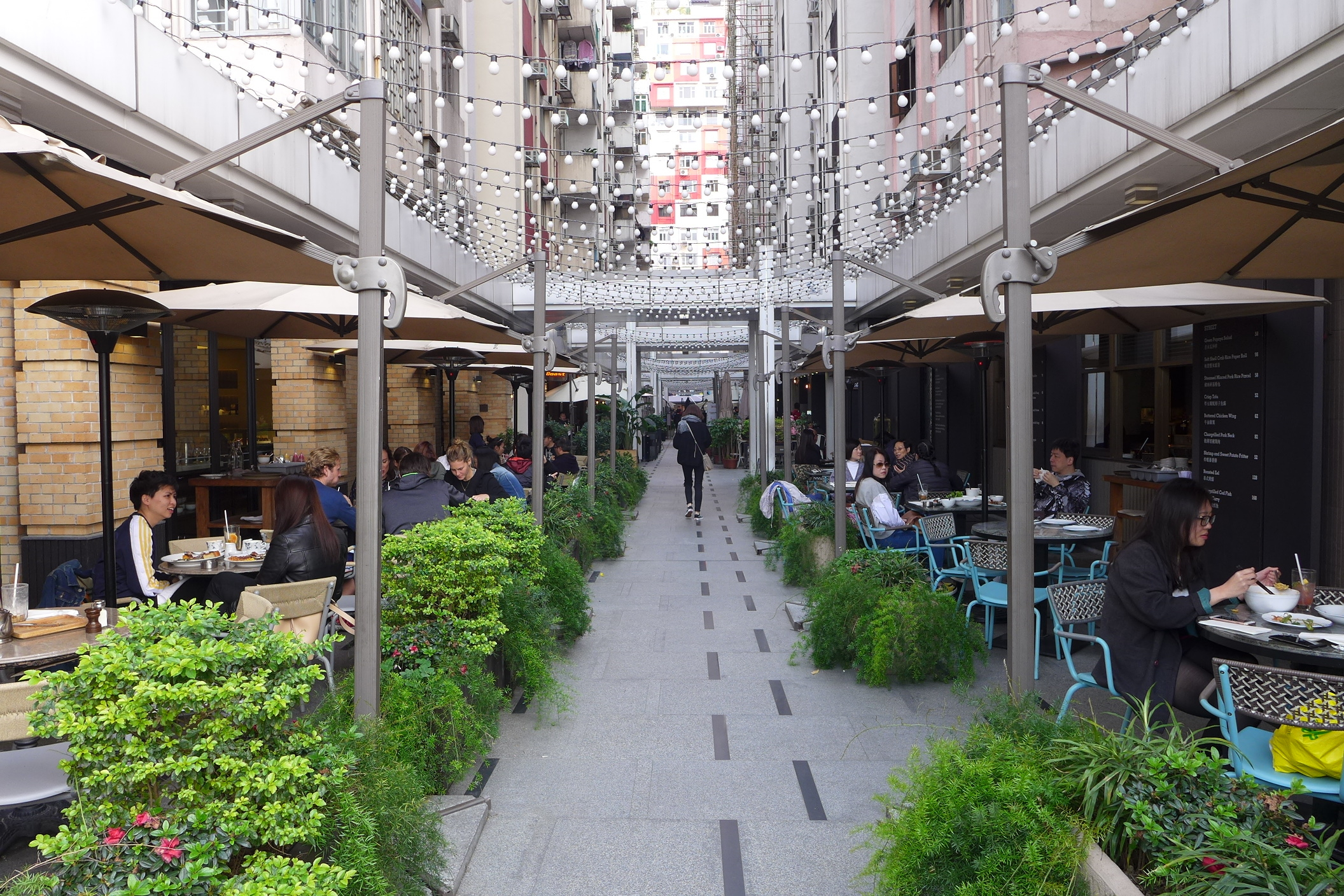 Food Street restaurants in Fashion Walk